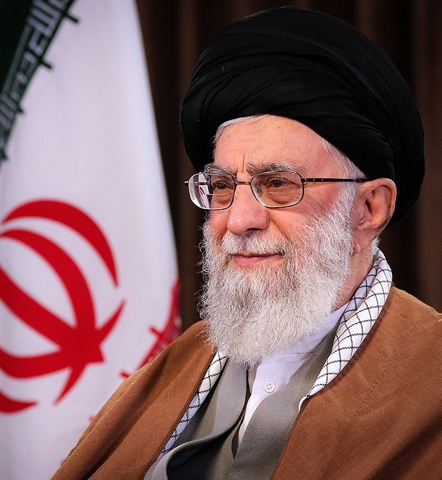 Ali Khamenei during Nowruz 2019 message